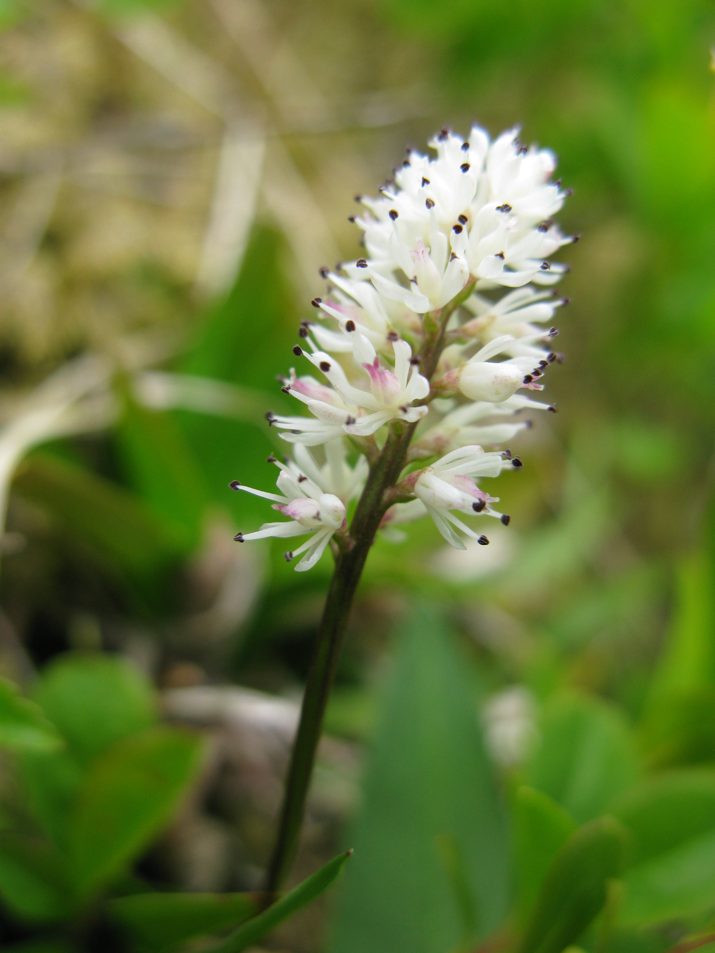 Tofieldia coccinea,Mount Iide, Fukushima pref., Japan